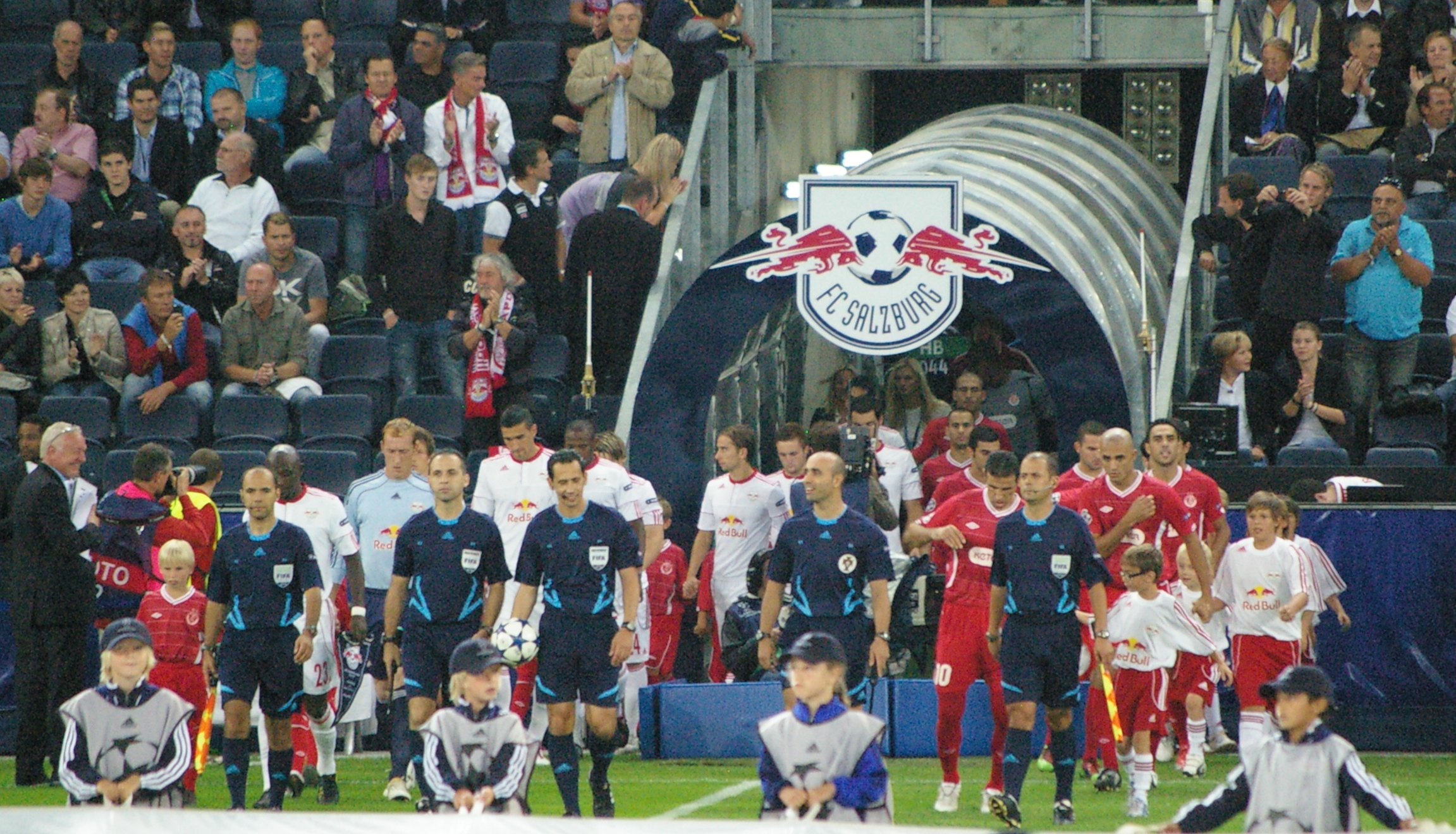 qualifinground 4 Championsleague